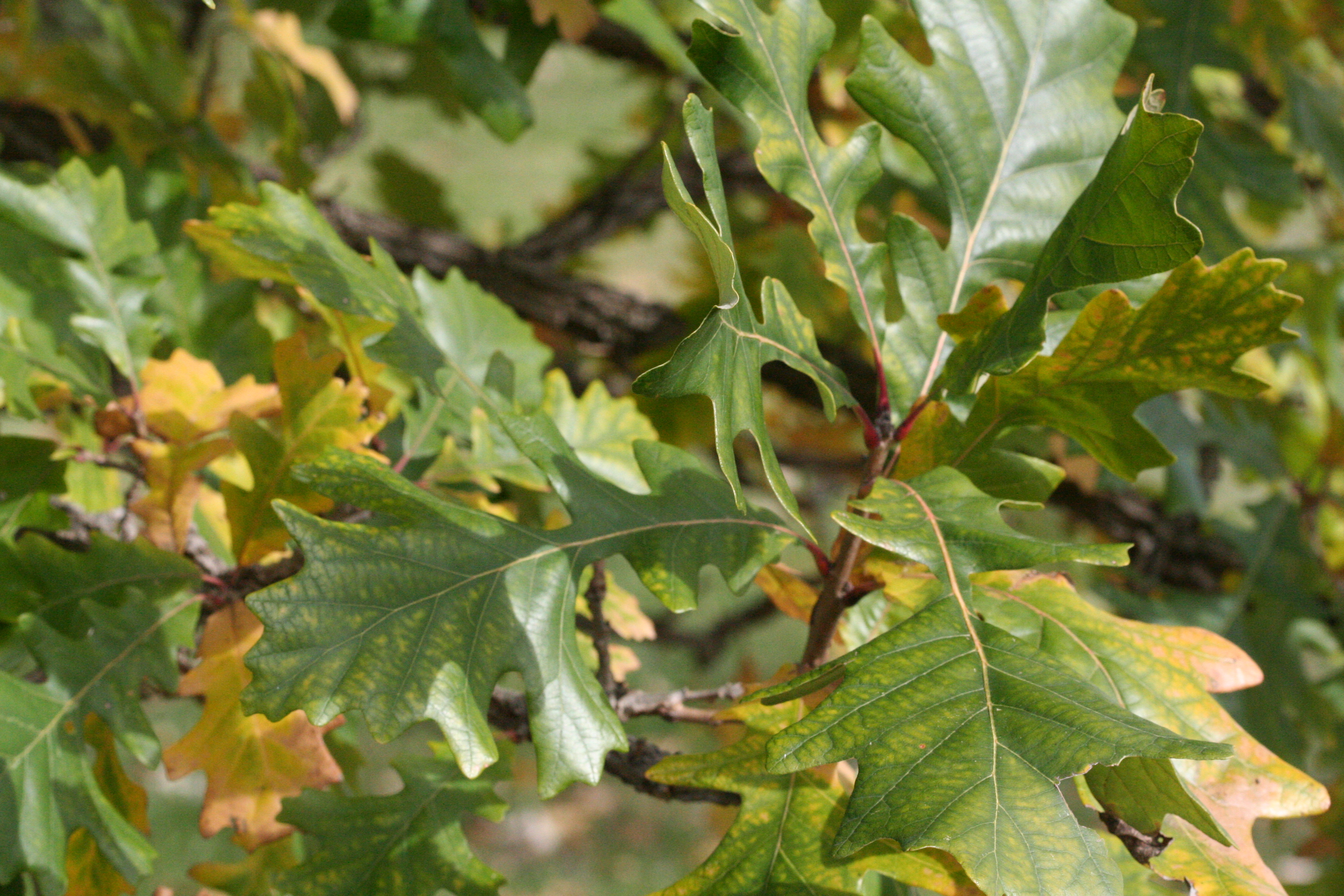 Quercus macrocarpa (bur oak) - Baltimore Woods Nature Center, Marcellus, New York